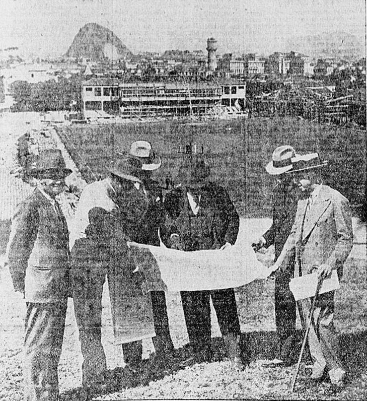 Rua Campo Sales, Tijuca, city of Rio de Janeiro, Brazil. Works at the seat of America FC.